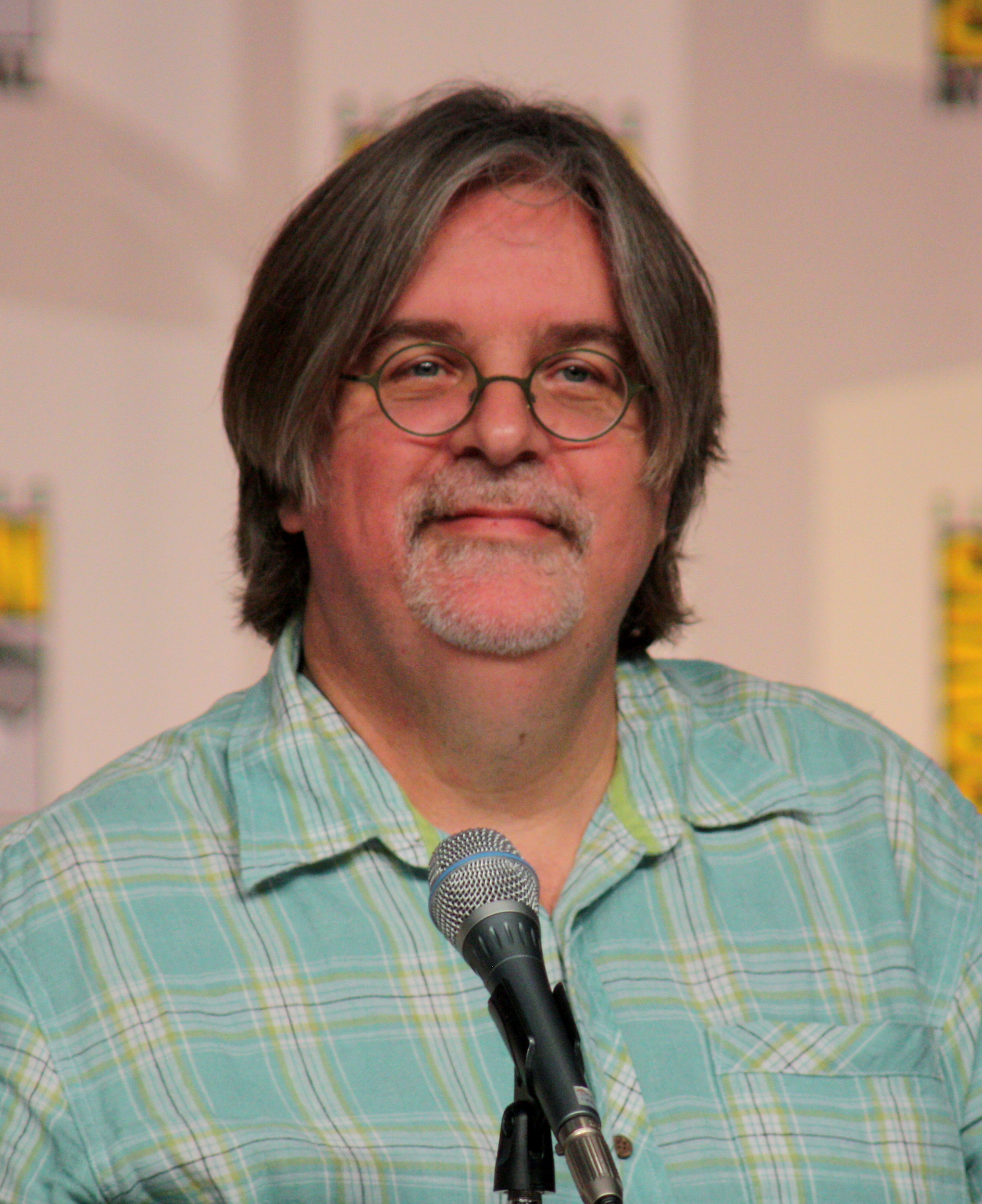 Matt Groening at the 2009 Comic Con in San Diego.